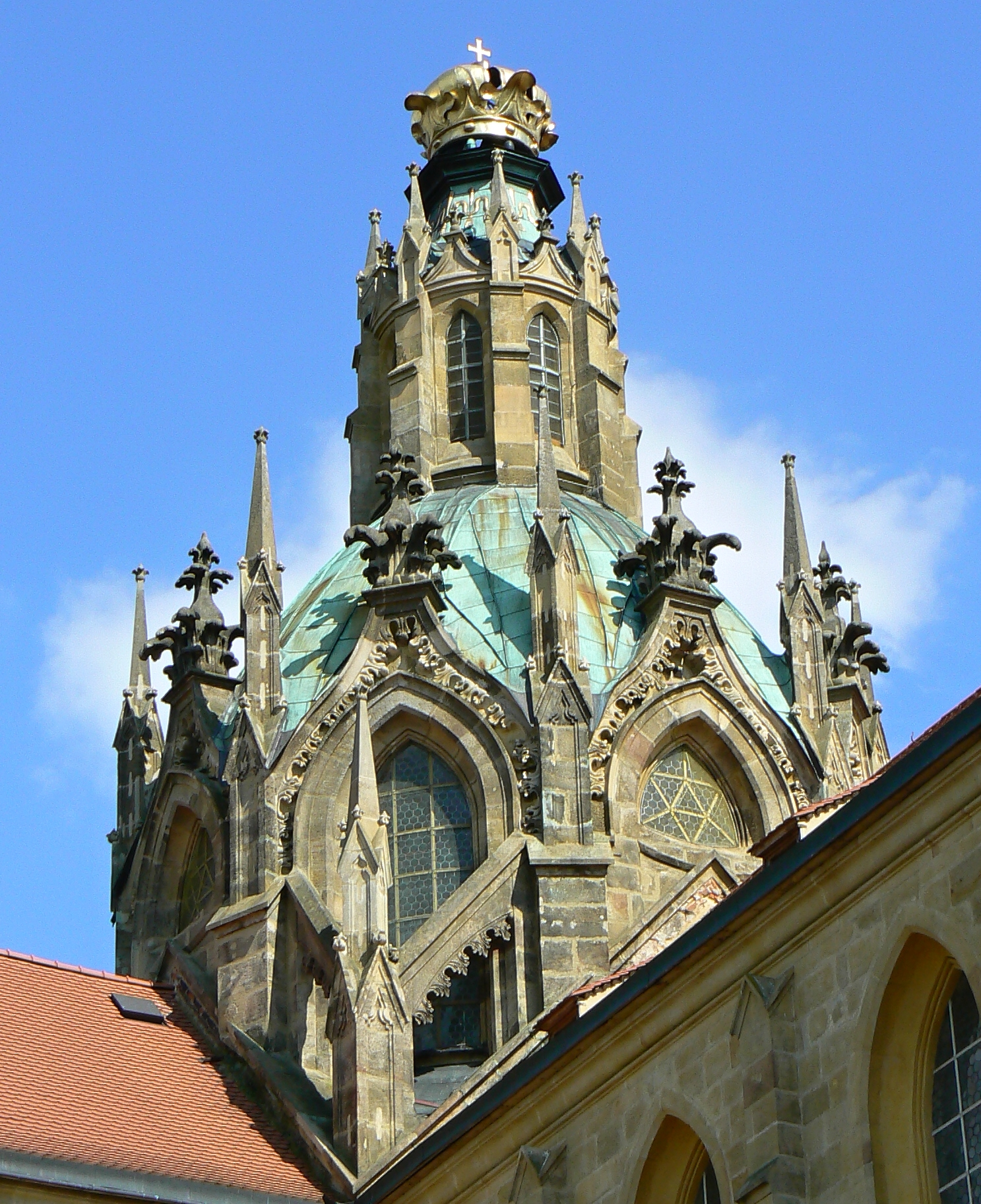 Monastery in town Kladruby in Tachov District in Czech Republic